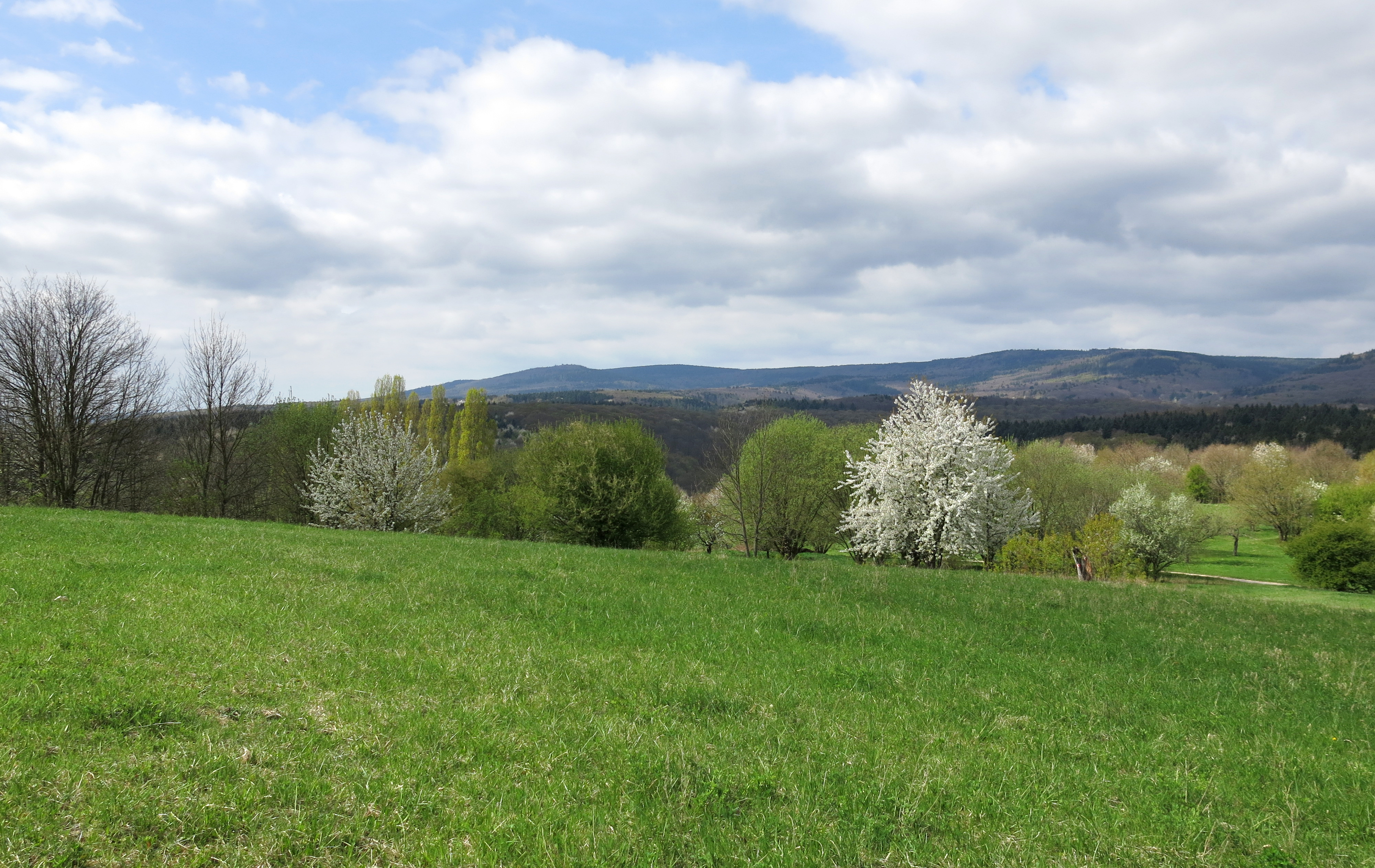 View from the hill Bubehäuser Höhe near Eltville westward.